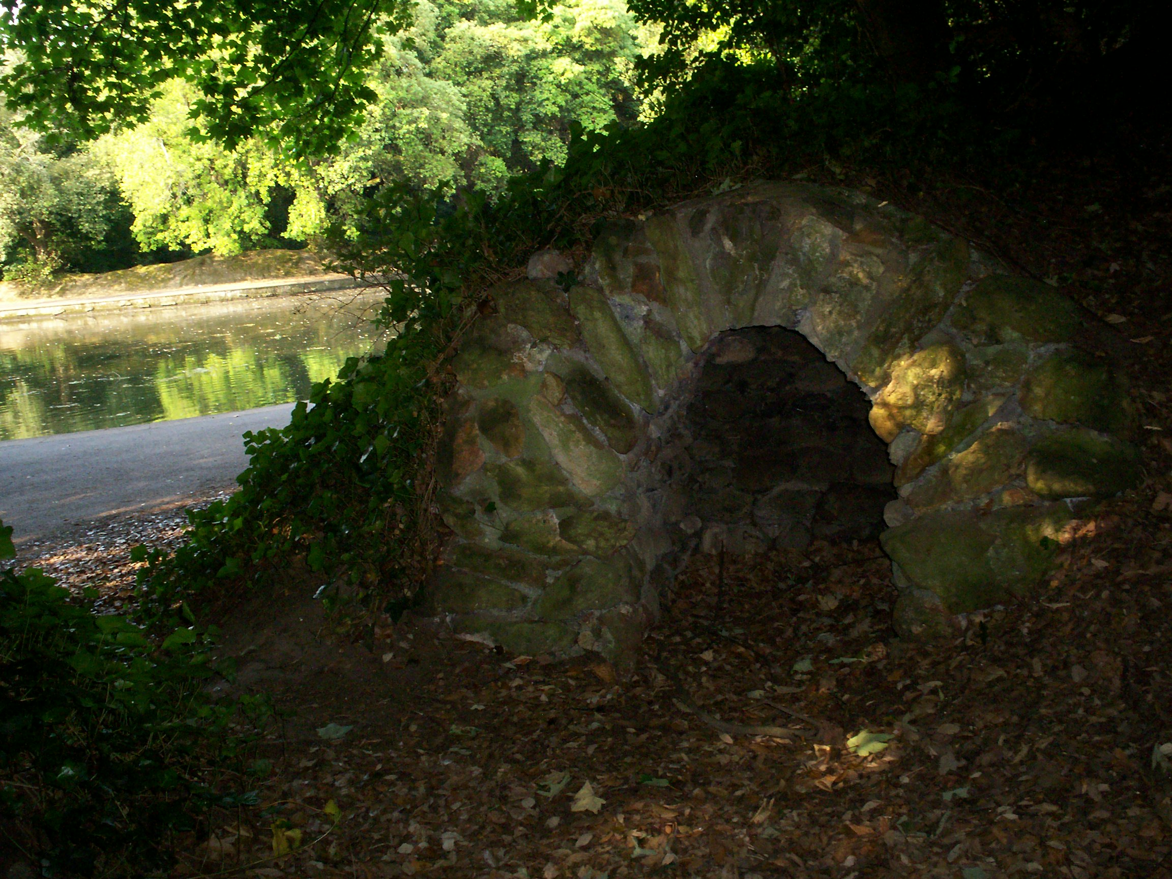 St Annes Well from which St Annes Park gets its name. Duckpond is visible in background. Well has been dry since the 1950s